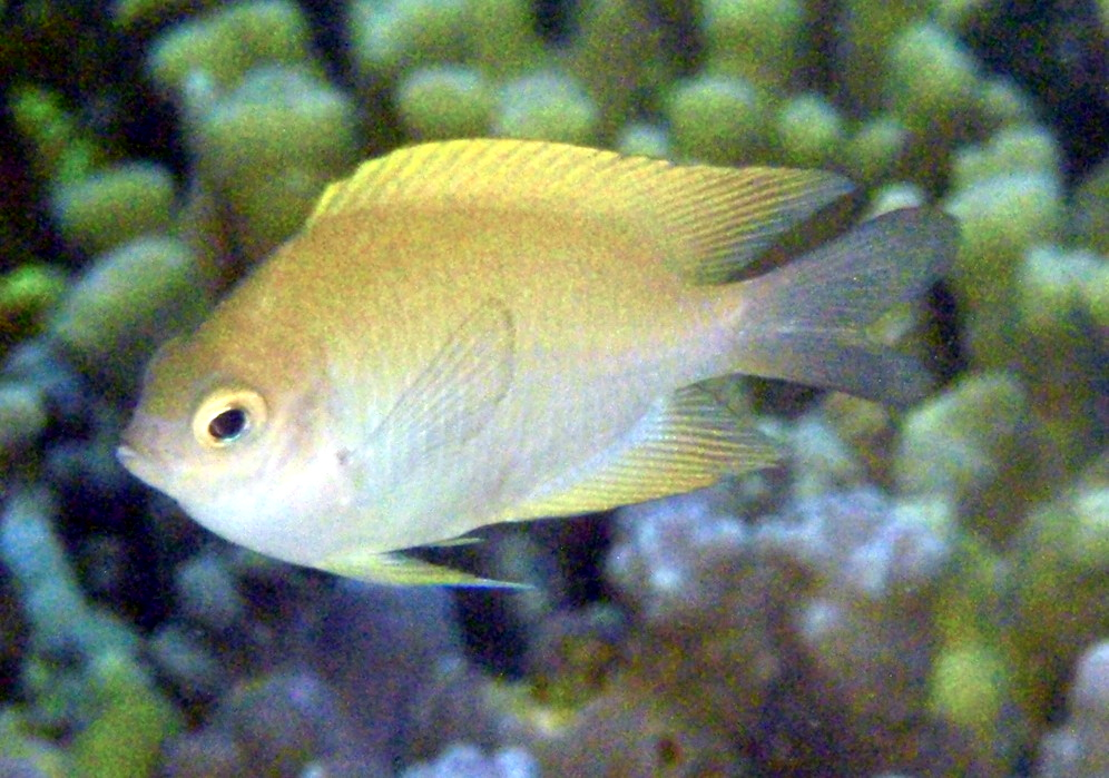 Altrichthys curatus, Coron Island, Palawan, Philippines